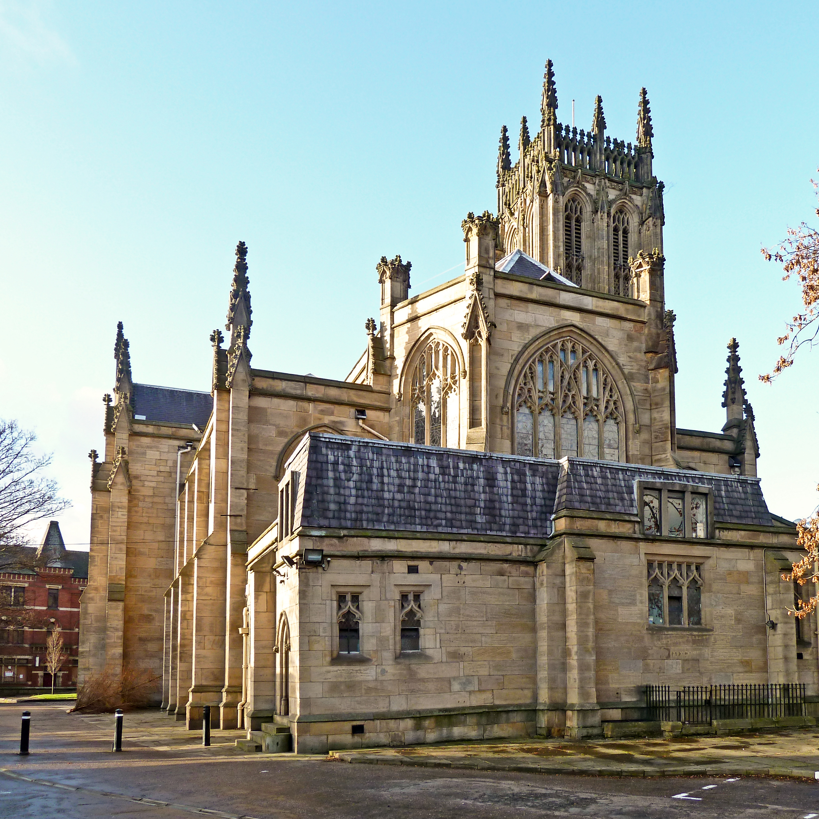 St Peter, Leeds (Leeds Parish Church)